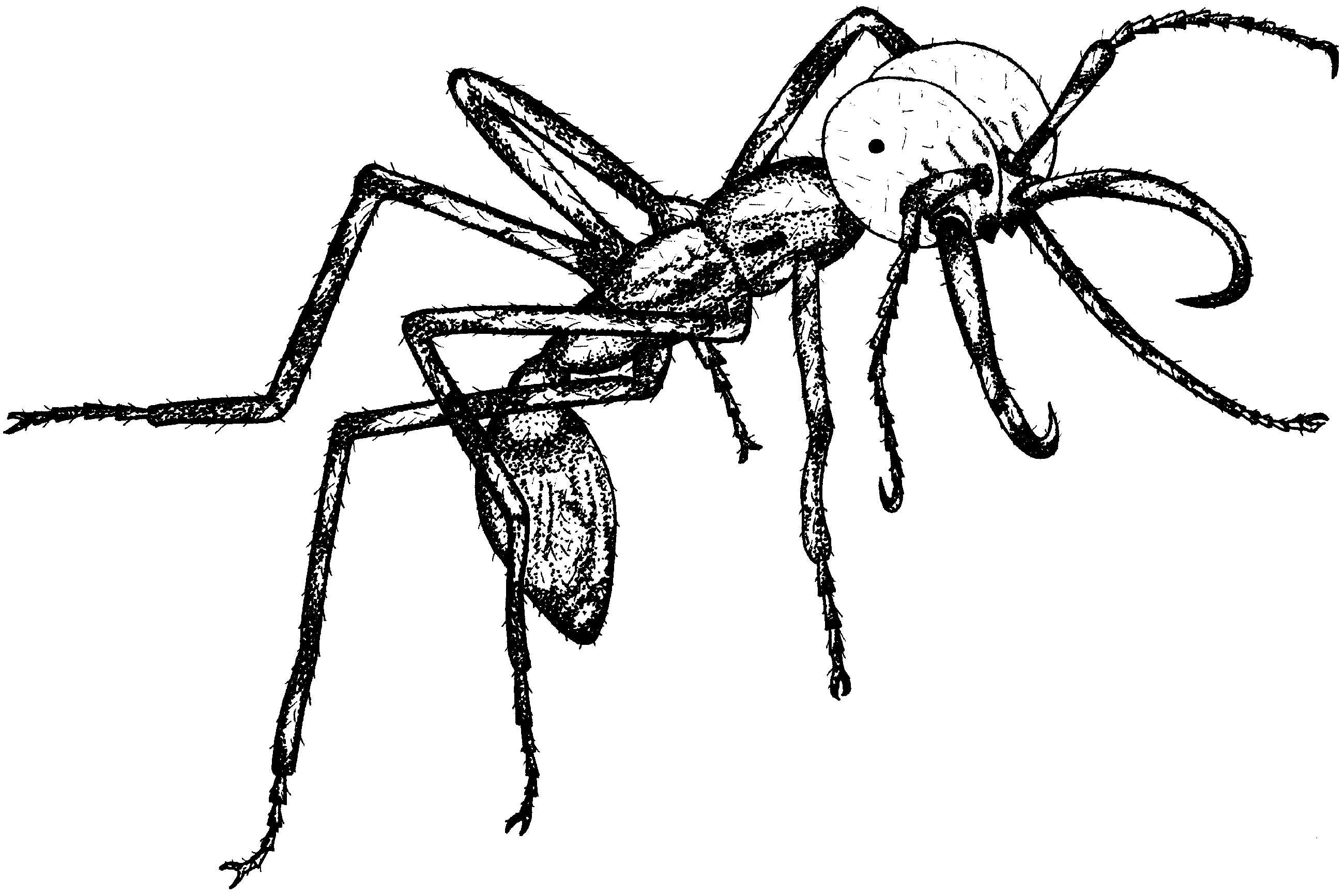 A Representative Individual from the Soldier Caste of the New World Army Ant Species Eciton burchellii with Characteristically Shaped Mandibles.